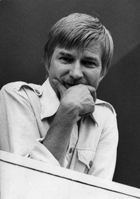 Osmo Pasanen